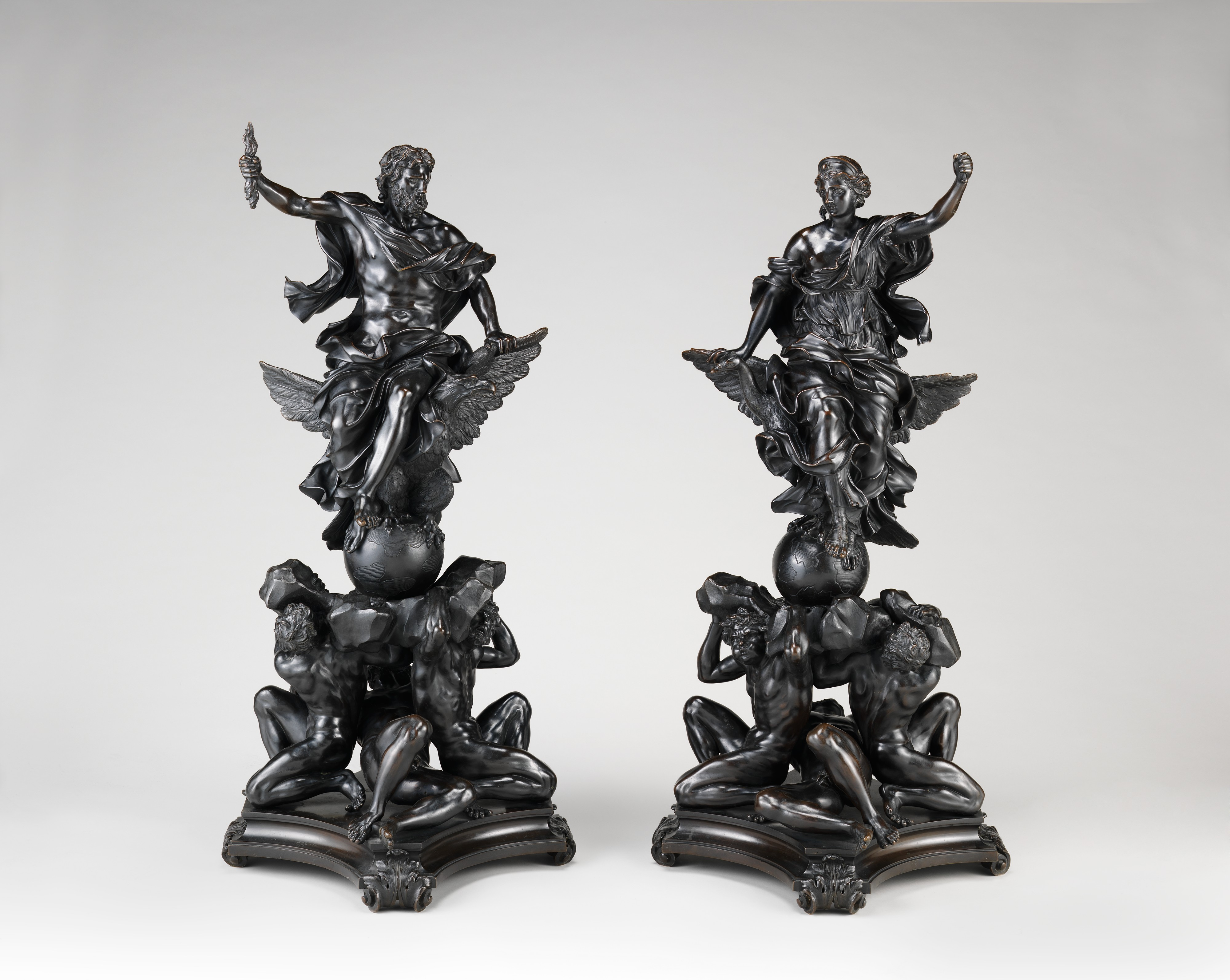 probably Italian; Firedog; Sculpture-Bronze